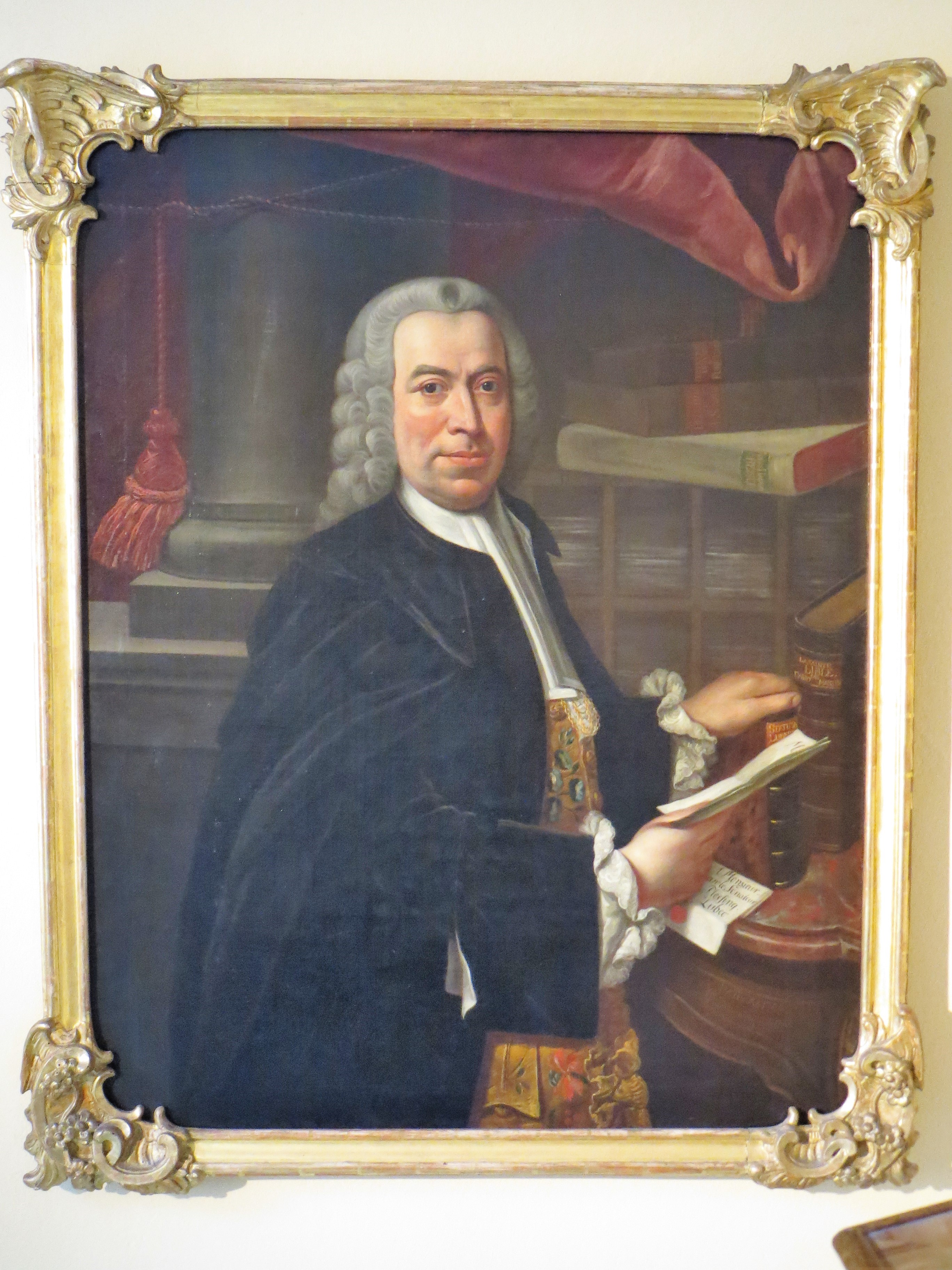 Johann Plessing, portrait painting in St.-Annen-Museum, Lübeck